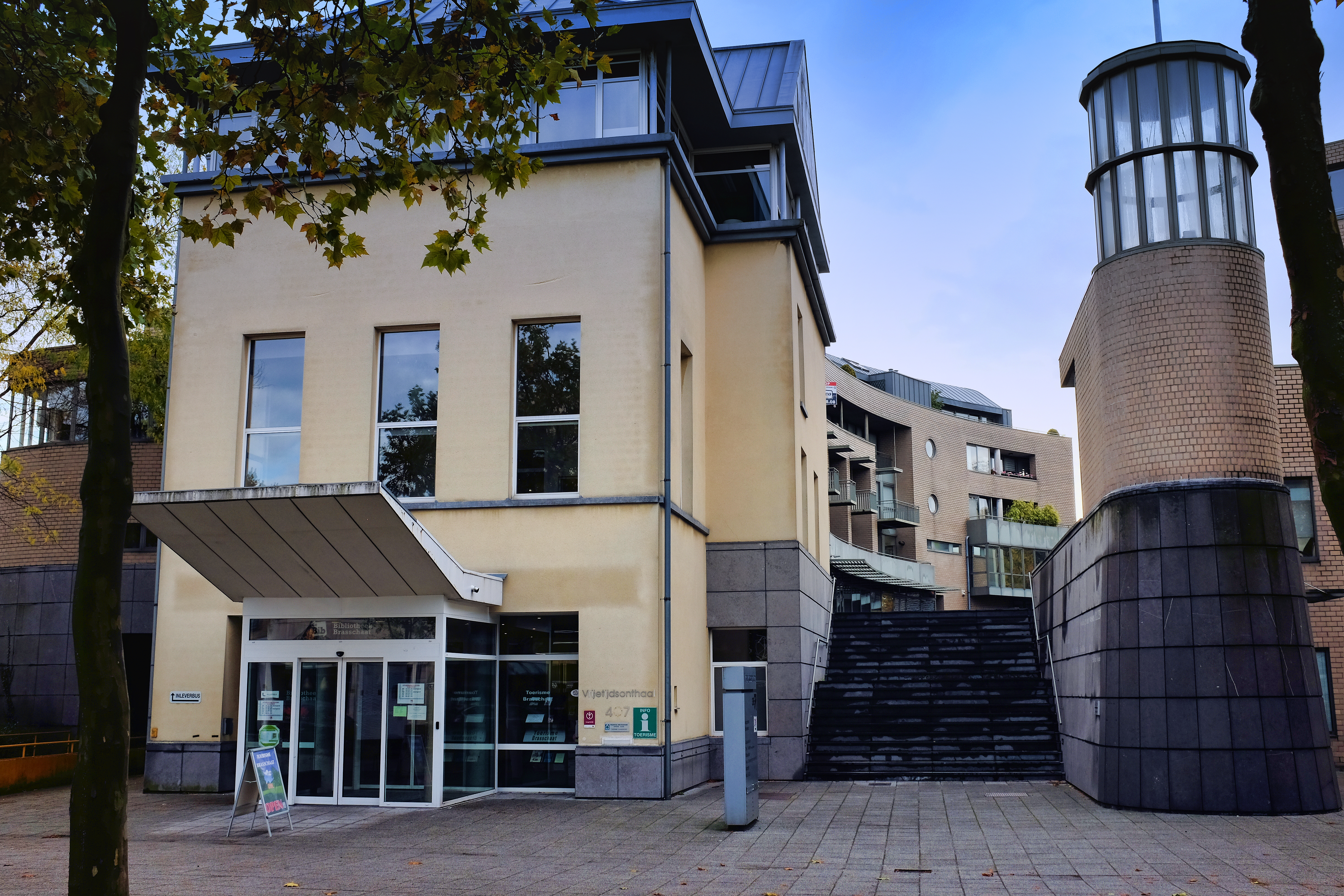 Brasschaat library